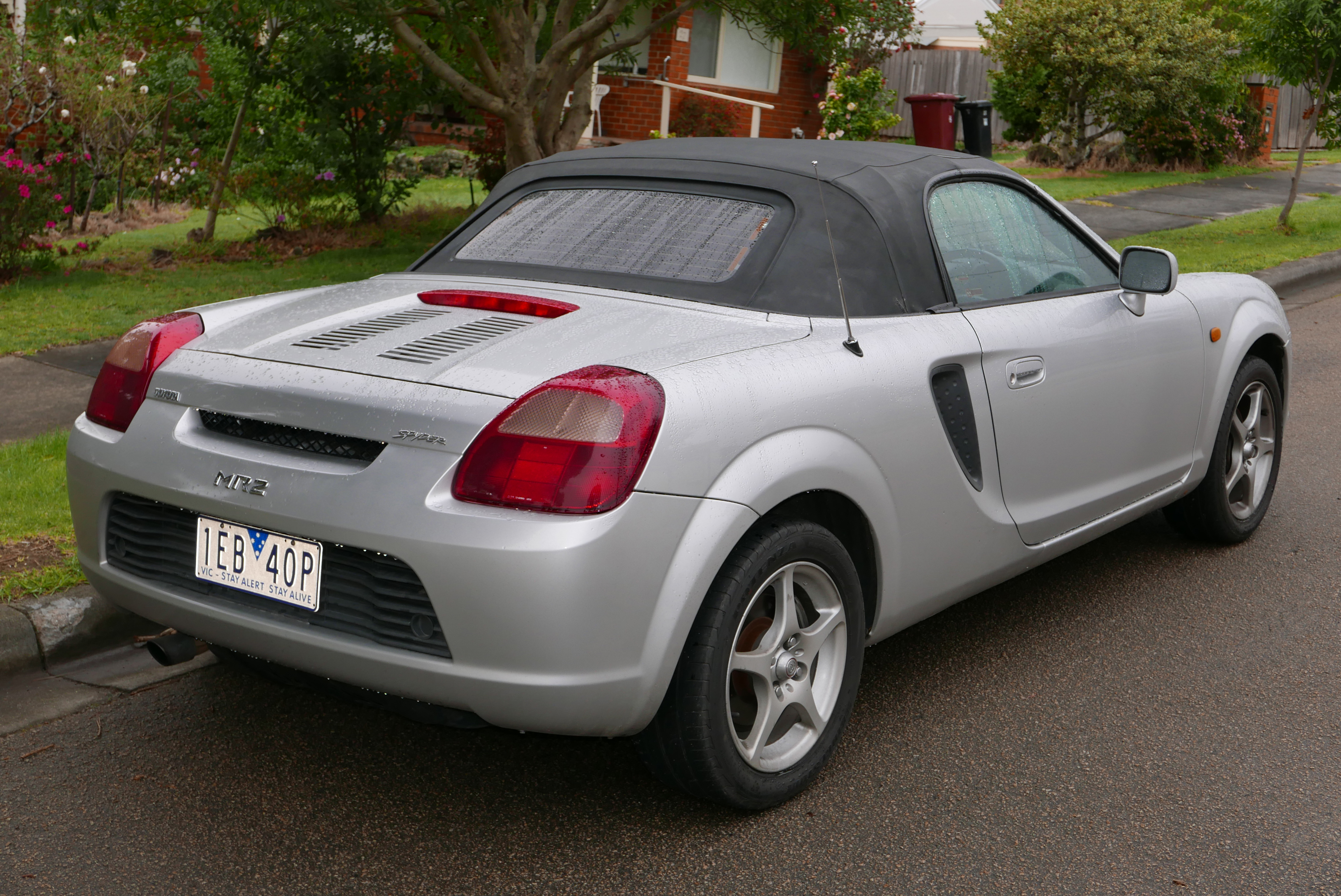 2002 Toyota MR2 (ZZW30R) Spyder convertible. Photographed in Doncaster East, Victoria, Australia. Vehicle registration enquiry resultsJurisdictionVictoriaRegistration1EB4OPChassis codeJTDFR320600048844Engine code1ZZ0967395Compliance date2002-03Year of manufacture2002